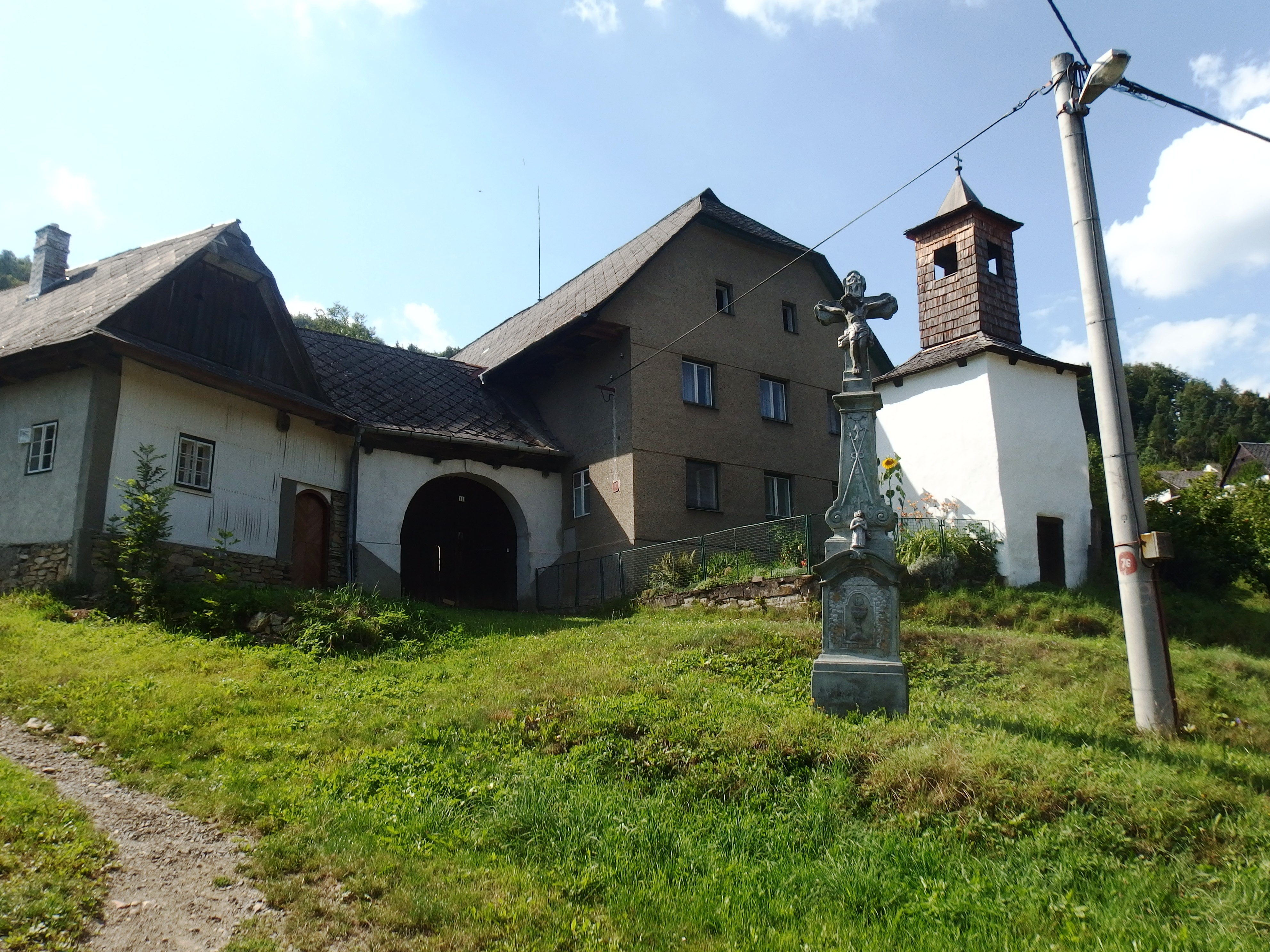 Městečko Trnávka, Svitavy District, Czech Republic, part Bohdalov.